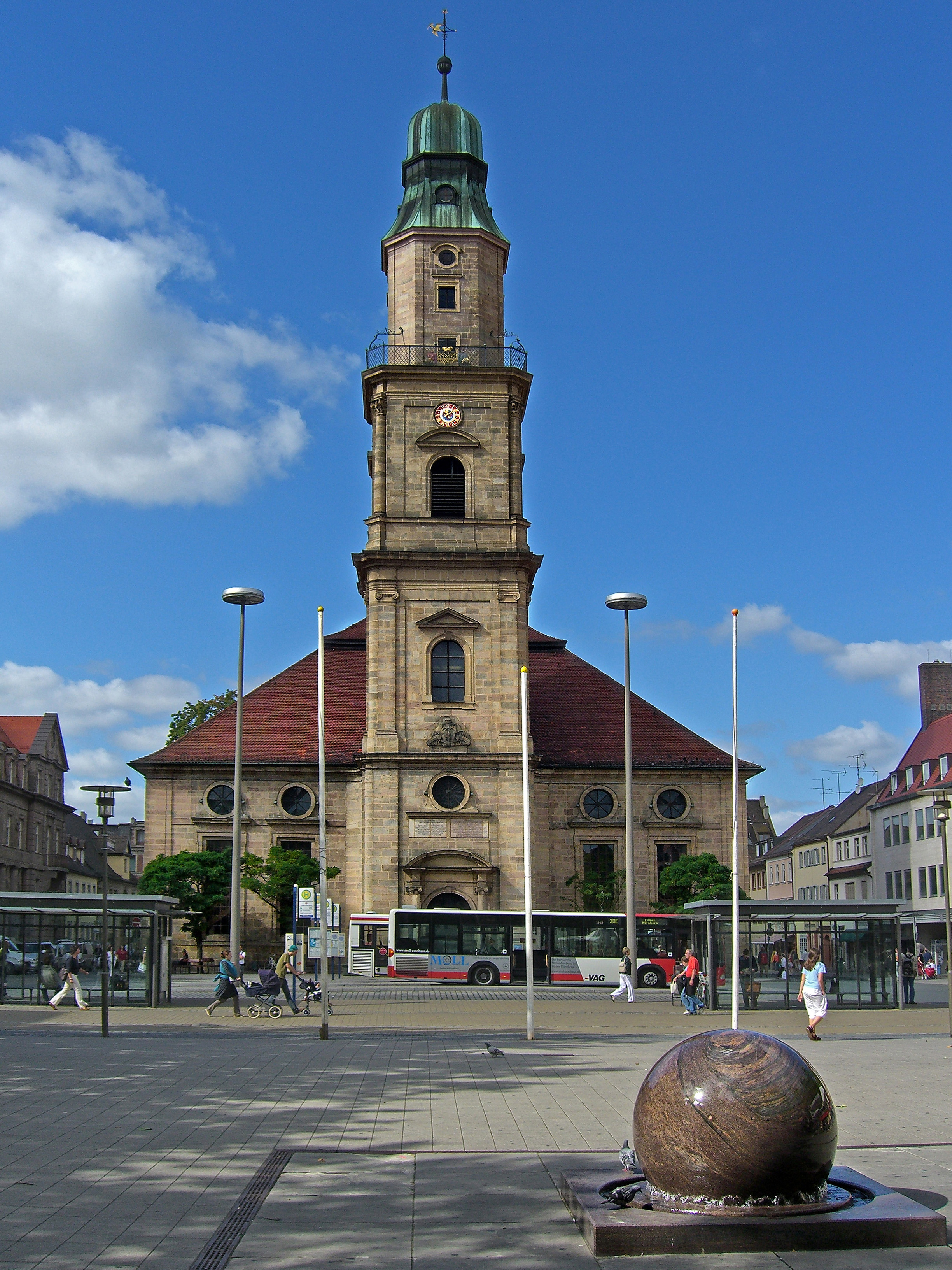 The „Hugenotten-Kirche“ (Huguenots church) at the Hugenottenplatz in Erlangen, Germany.